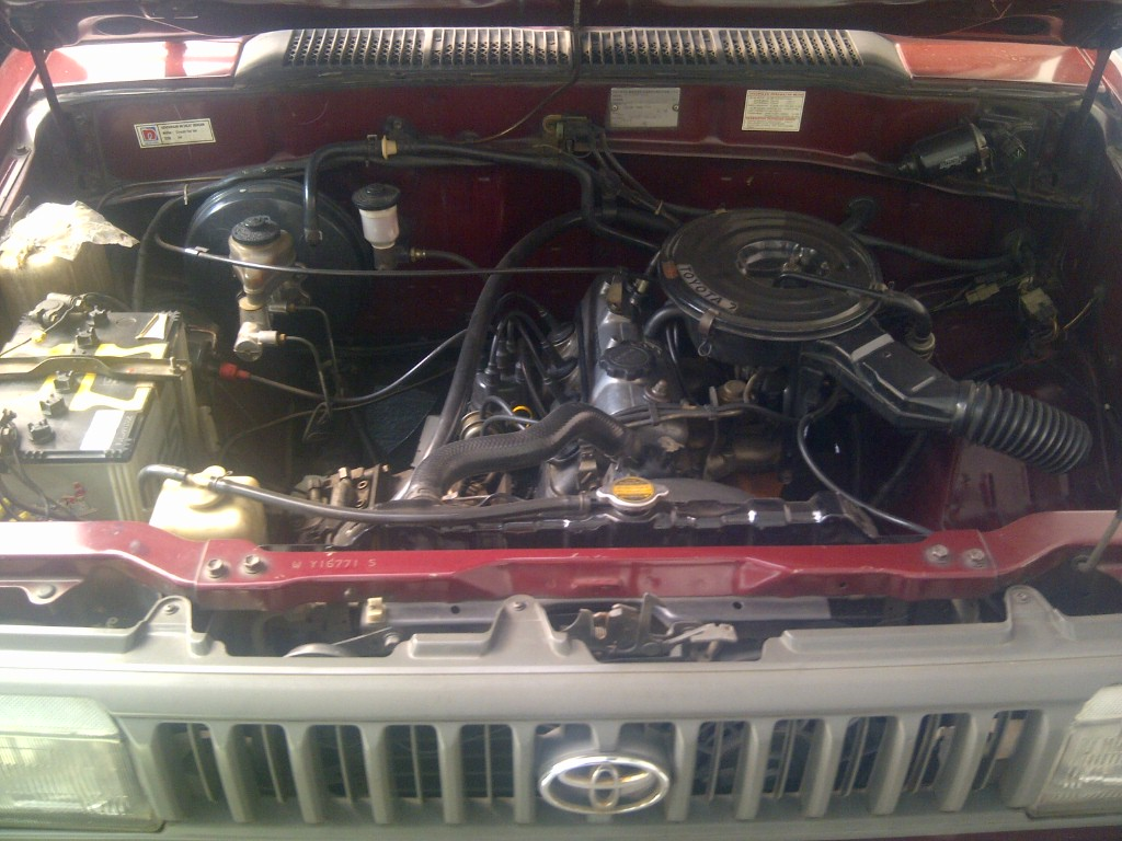 Showing 7K engine assembled on 1996 Toyota Kijang